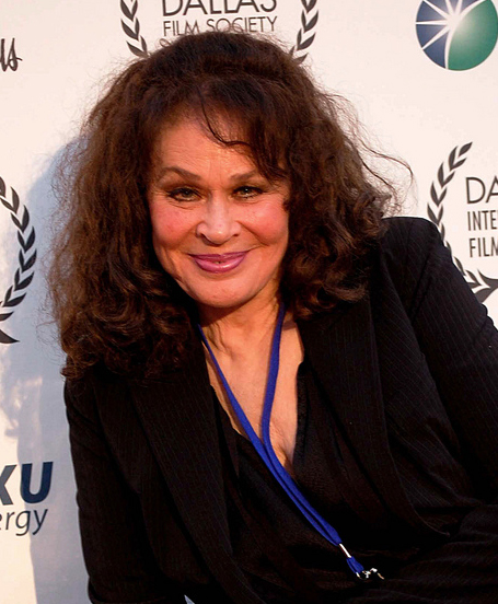 Karen Black at the Dallas International Film Festival in April 2010.